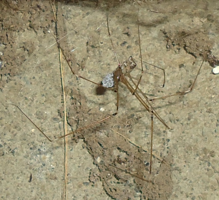 Female Crossopriza lyoni with eggs. Mindanao, Philippines.